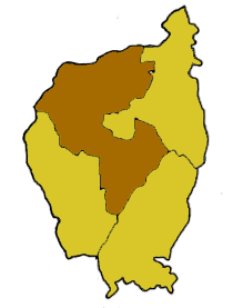 Diocese of Kildare and Leighlin in the Catholic Province of Dublin. This is a current map of the ecclesiastical province in the Catholic Church. The crosses mark where the current Cathedrals of each diocese is located. The specific dioceses are in different colours.